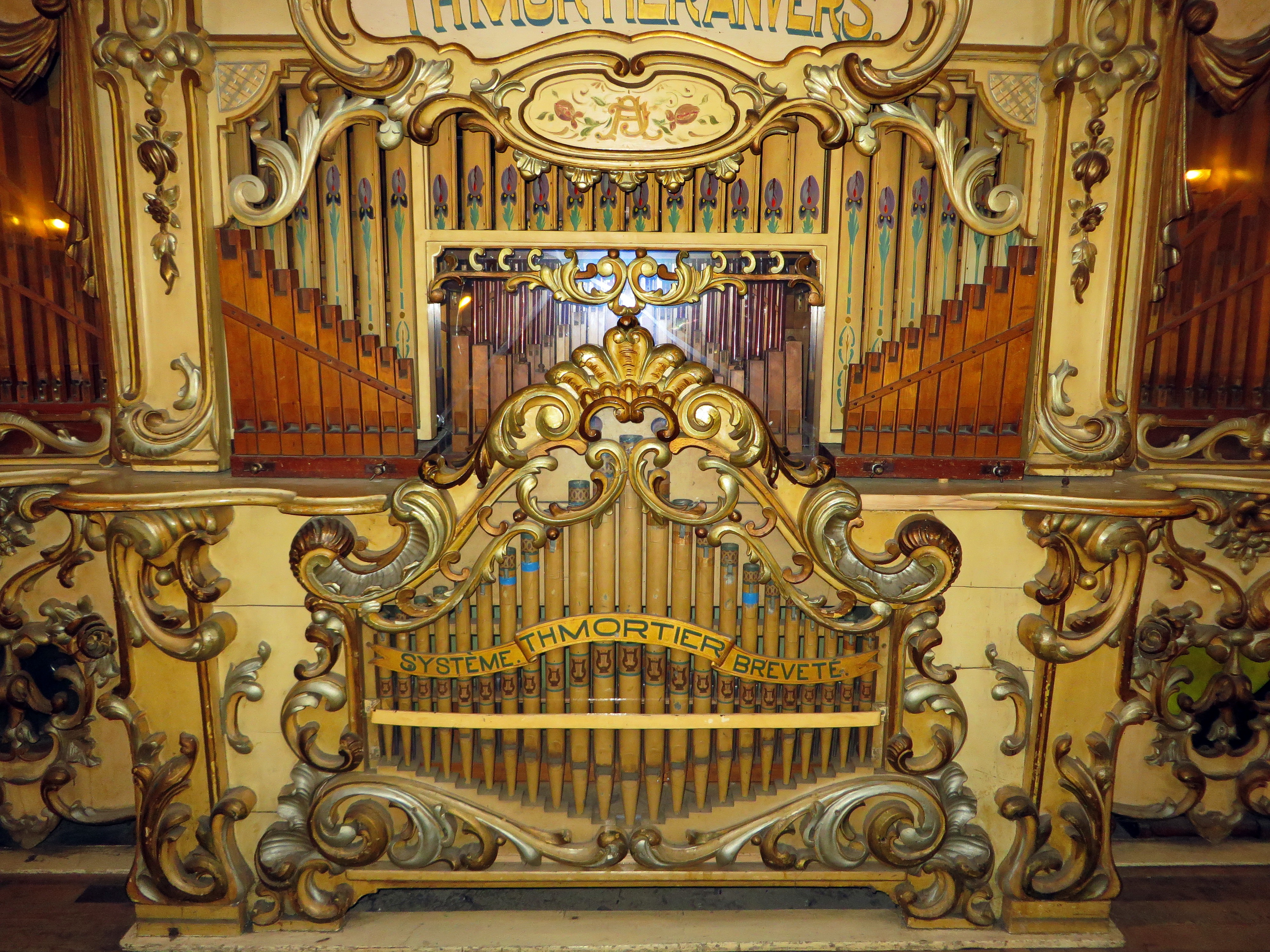 Th. Mortier-Anvers dance hall organ - Le Café Des Orgues, Herzeele (2016-02-15 16.07.33 by Albert Dezetter @pixabay 1232317) Th Mortier-Anvers Système. Th Mortier Brebeté